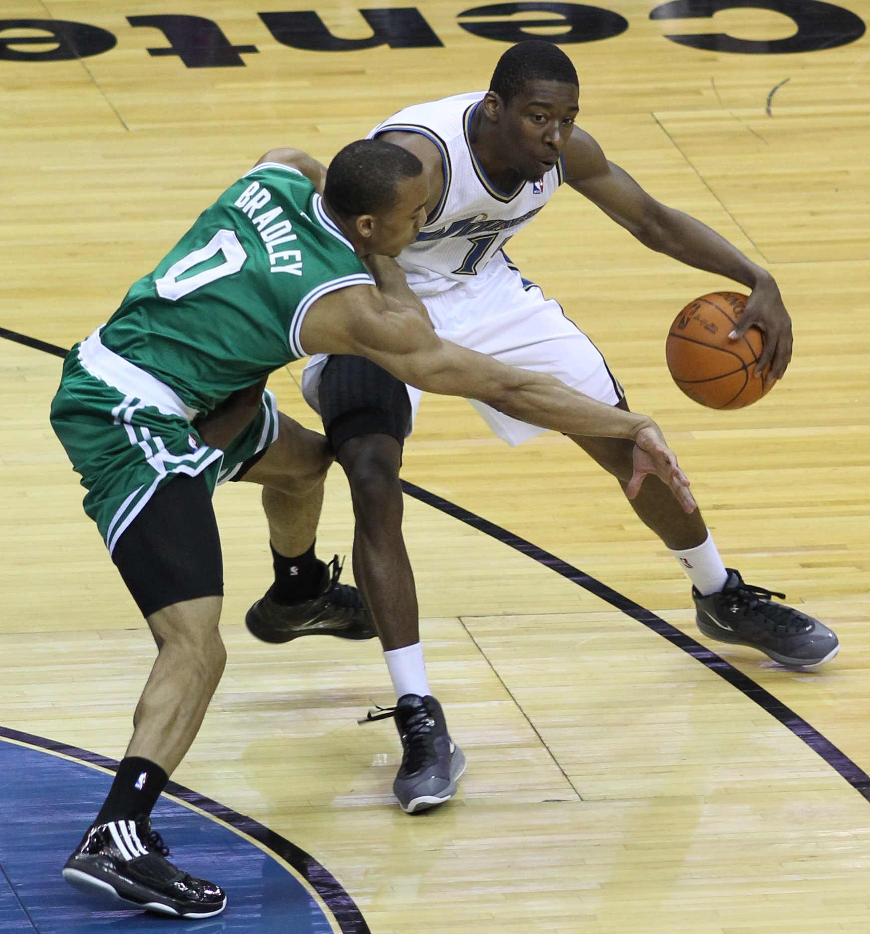 Boston Celtics v/s Washington Wizards April 11, 2011